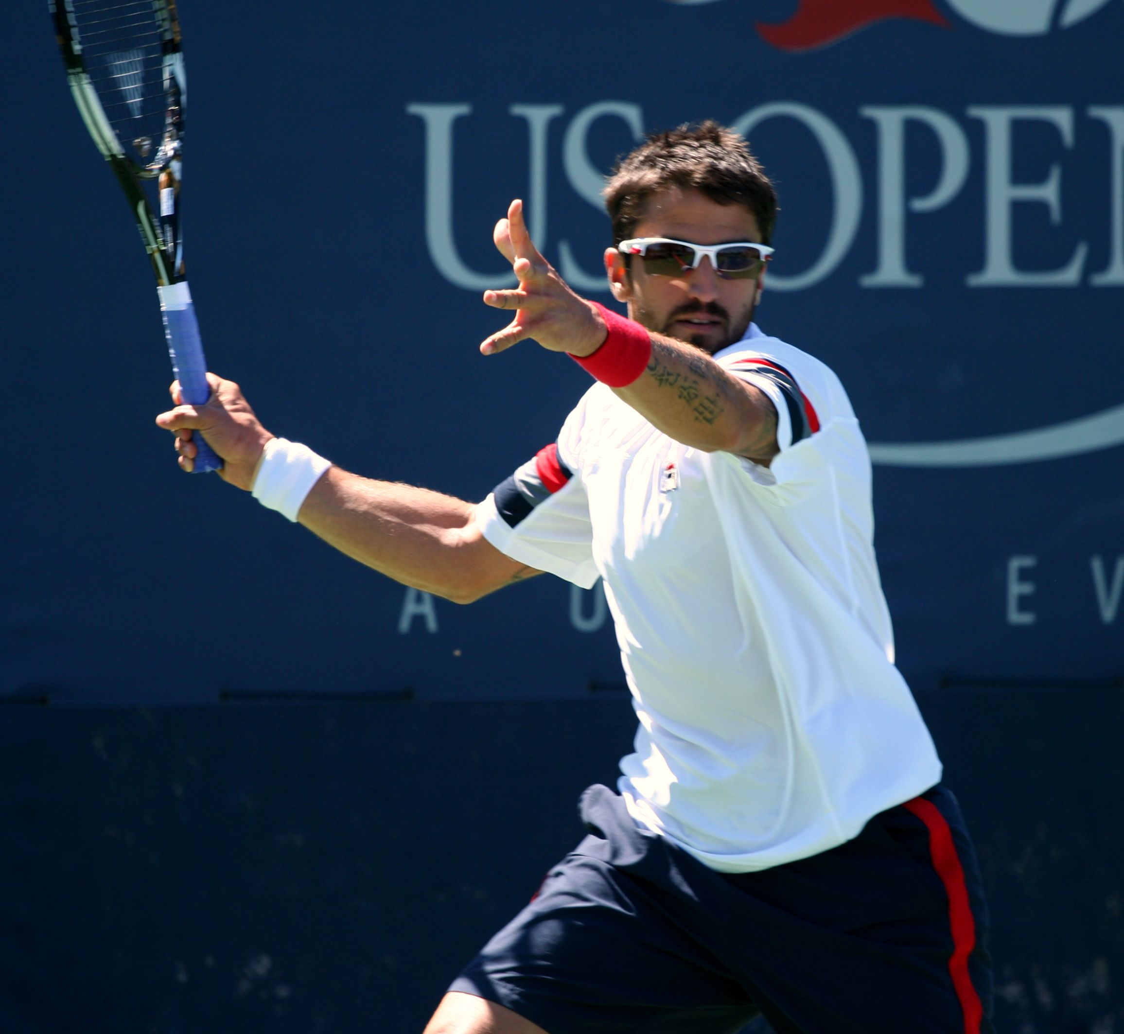 U.S. Open Monday, Aug. 29